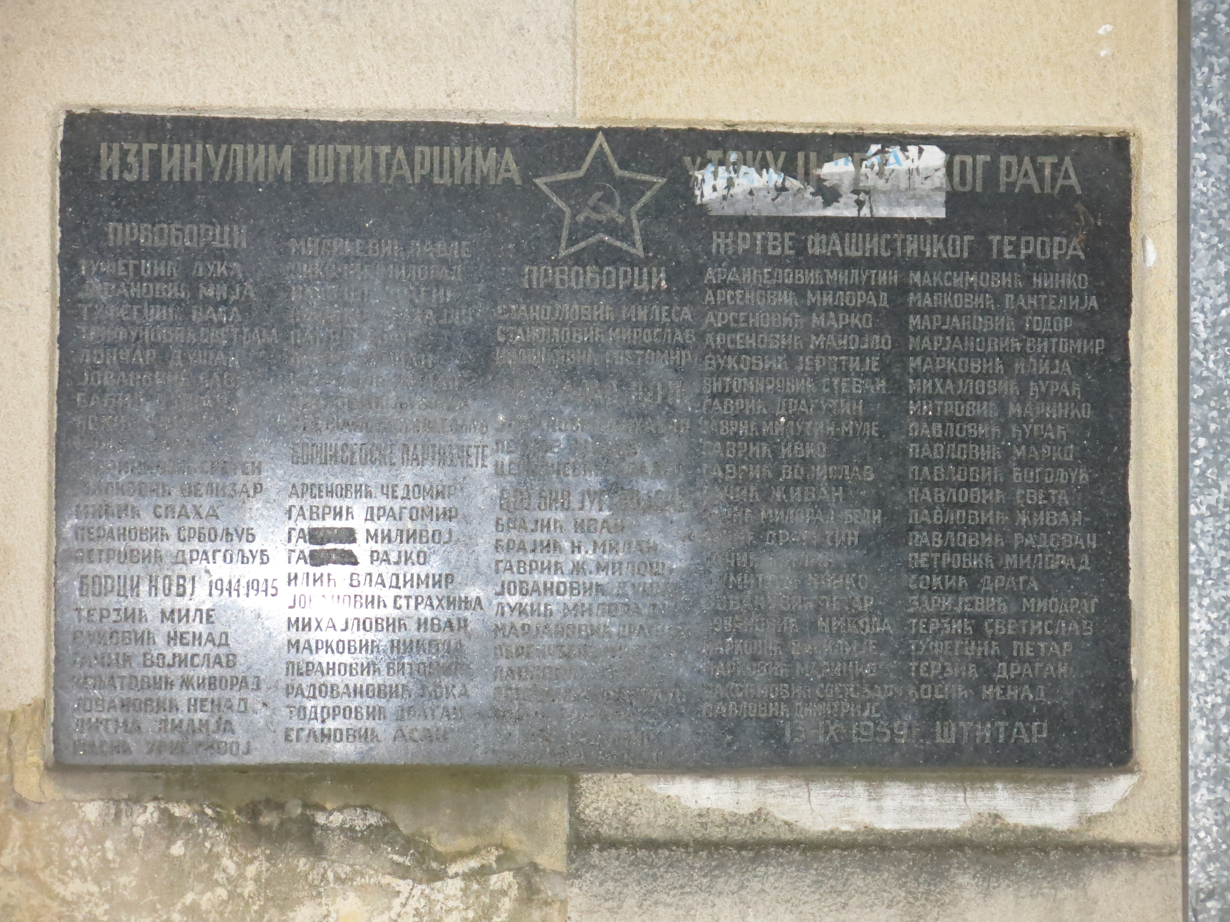 Štitar, Serbia, Monument to the fallen warriors